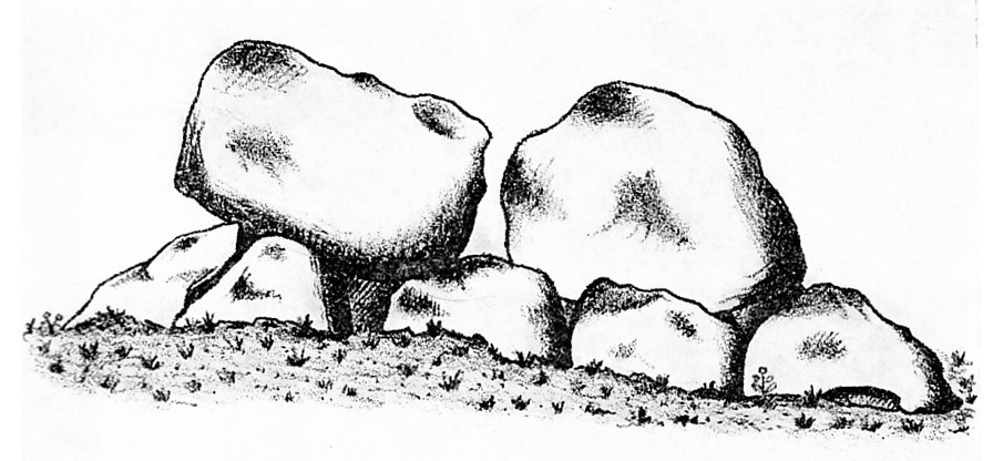 Megalithic Tomb at Vorbein (Sprockhoff-No. 545)